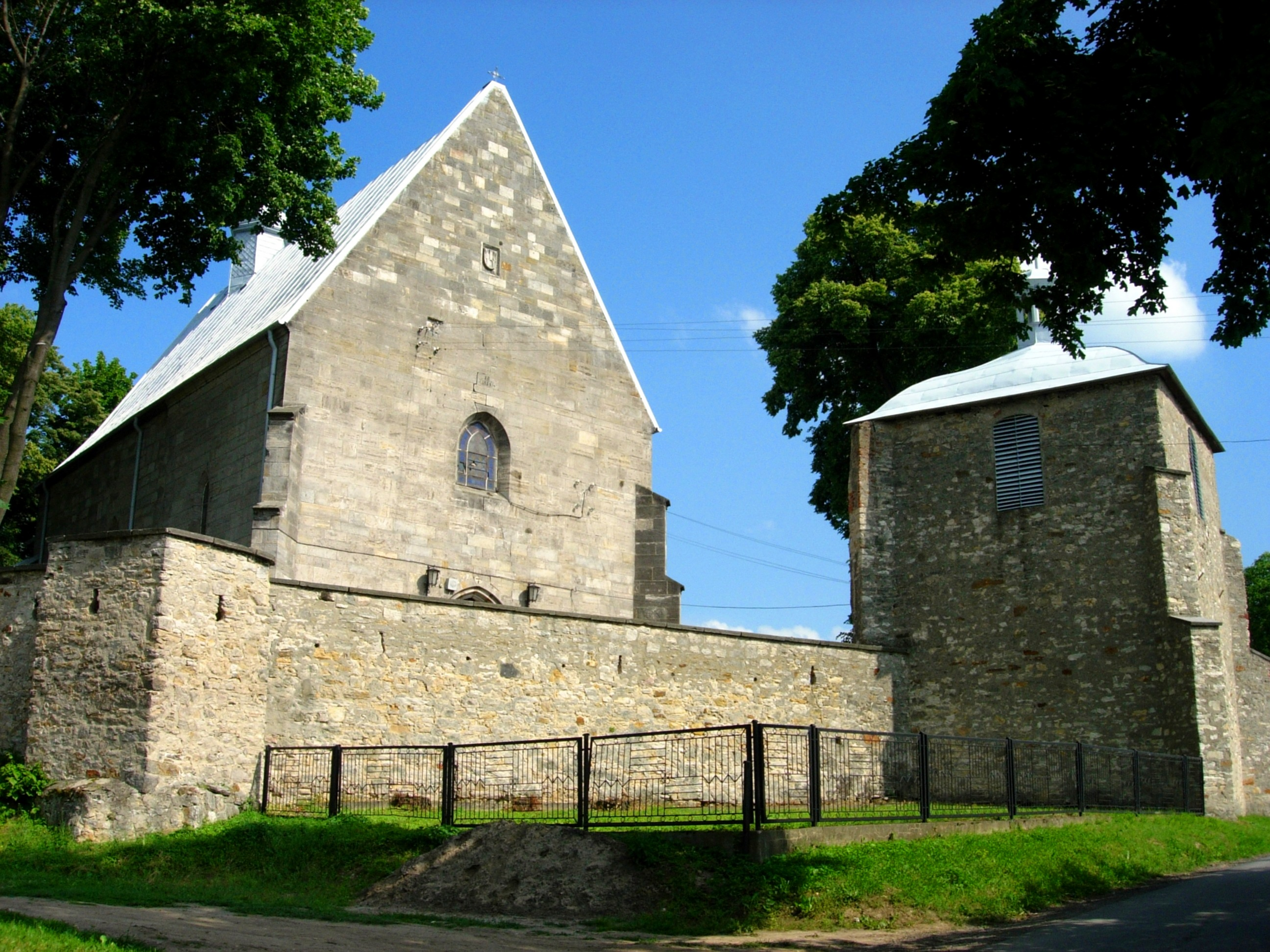 Saint Giles Church in Ptkanów (Poland)